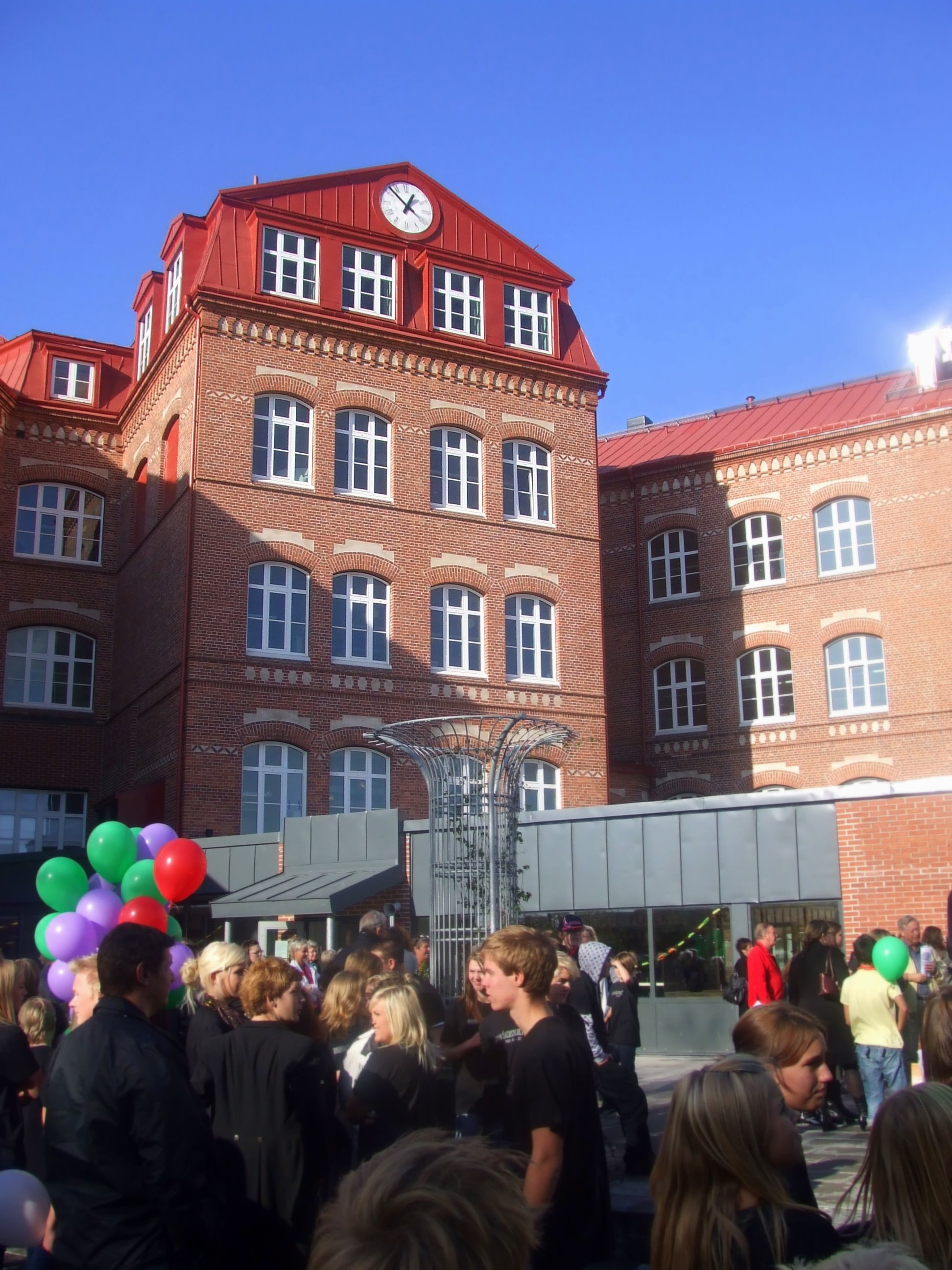 100 year anniversary at Brunnsåkersskolan in Halmstad, Sweden.